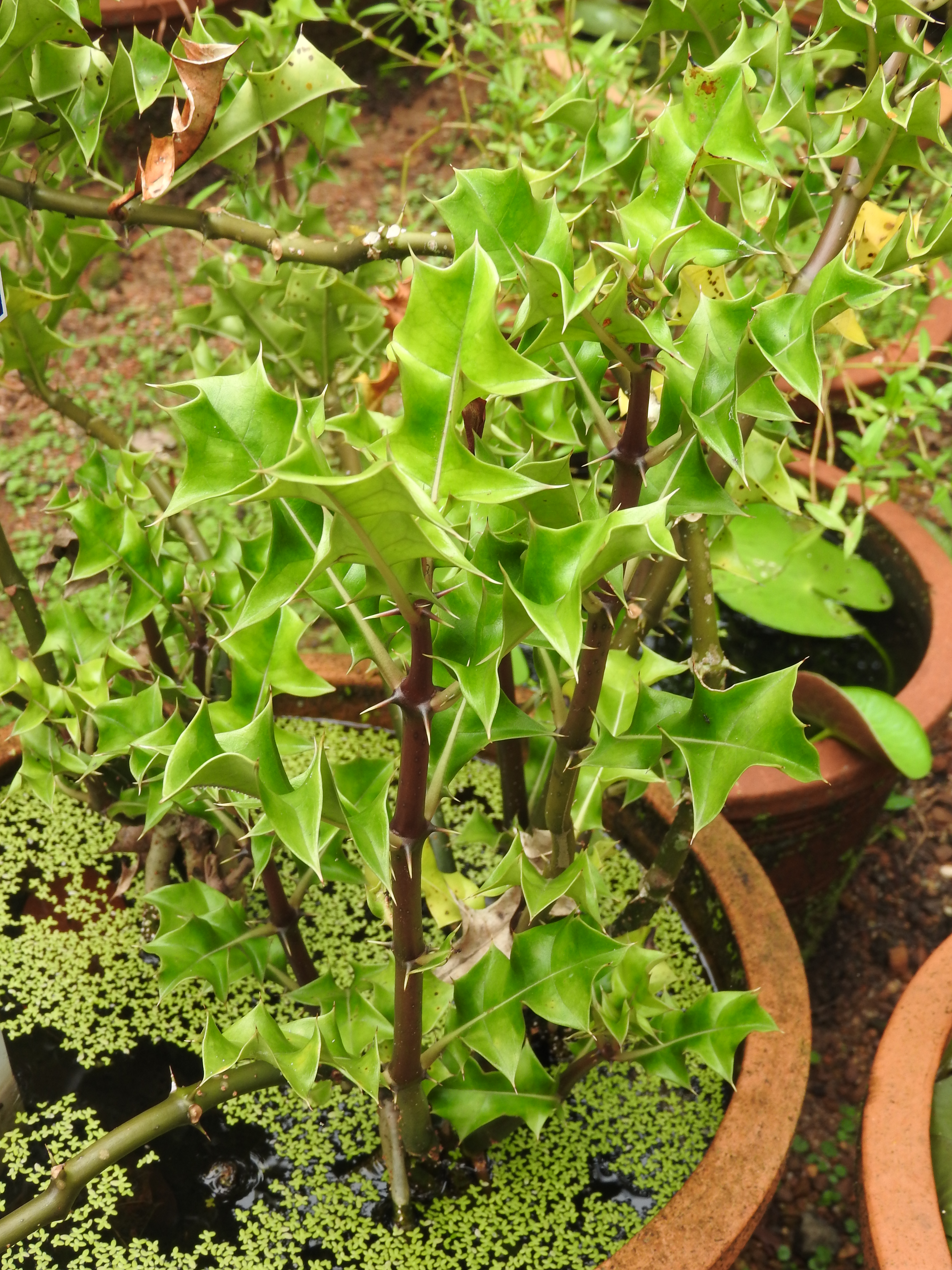 Acanthaceae-holy mangrove;erect spinous shrubs,flowers blue,capsules compressed.